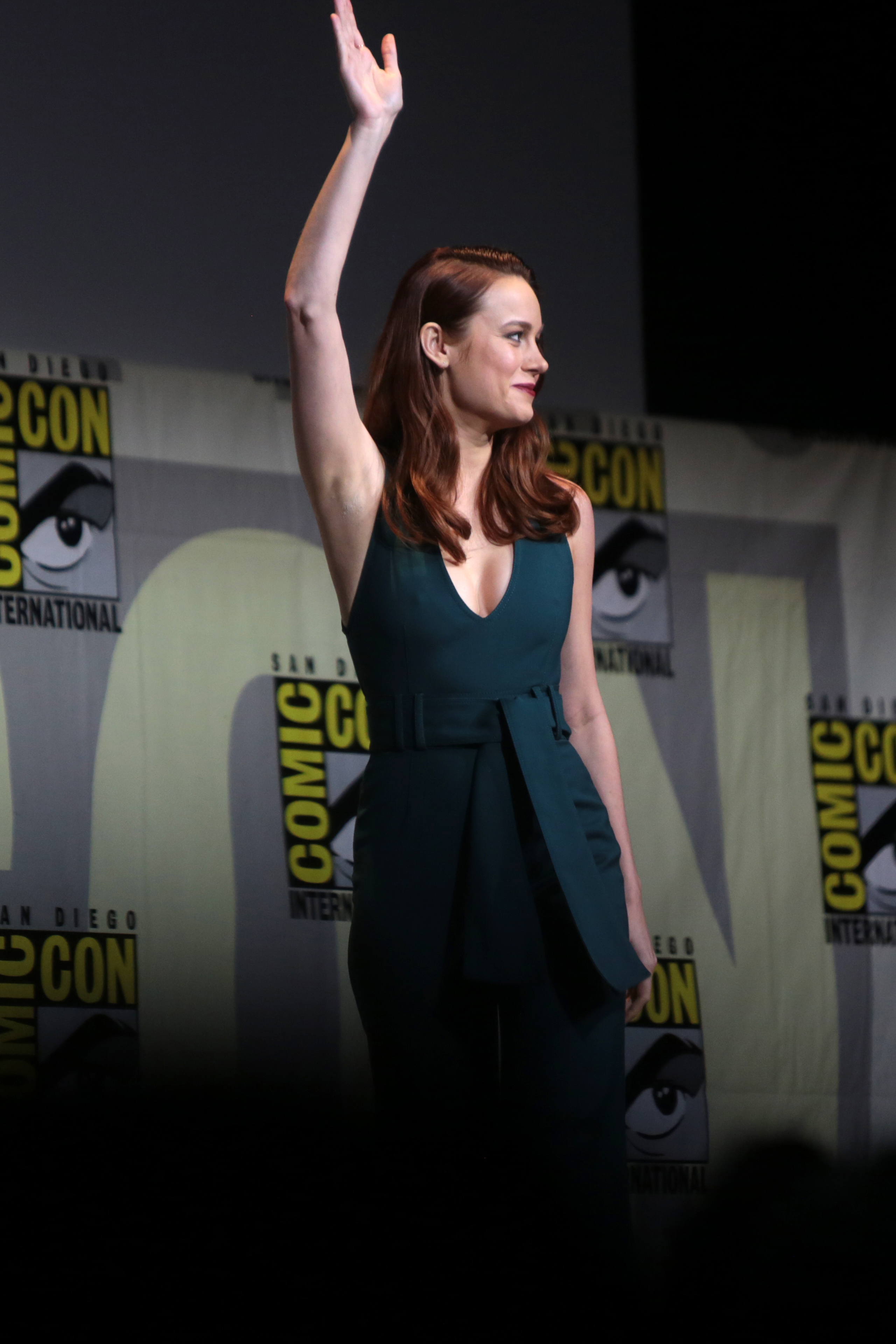 Brie Larson speaking at the 2016 San Diego Comic Con International, for Captain Marvel, at the San Diego Convention Center in San Diego, California.